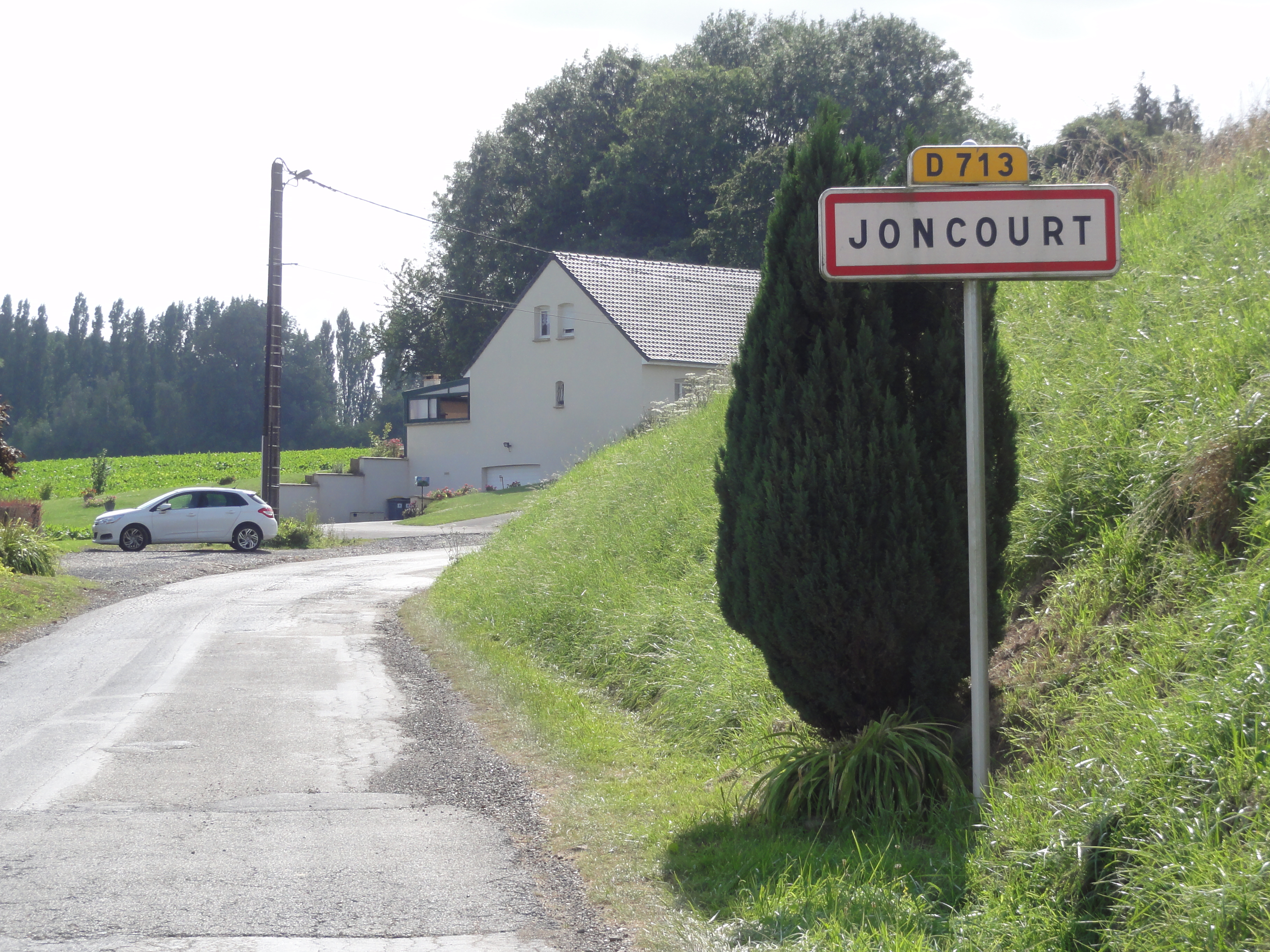 Joncourt (Aisne) city limit sign